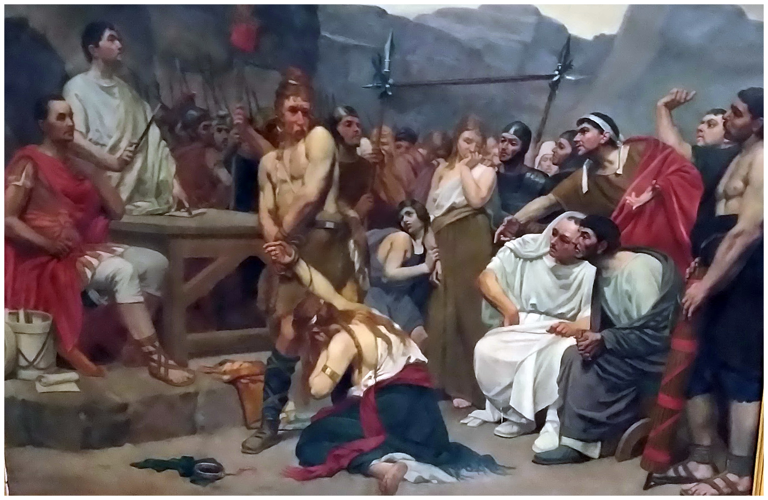 1880 Prix de Rome - Rémy Cogghe - "Les Aduatiques Vendus à l'Encan" (The Atuatuci sold at the Auction")- Copy by Ernest Cracco. City of Mouscron (Belgium - Province of Hainaut - Leon Maes Folklore Museum)